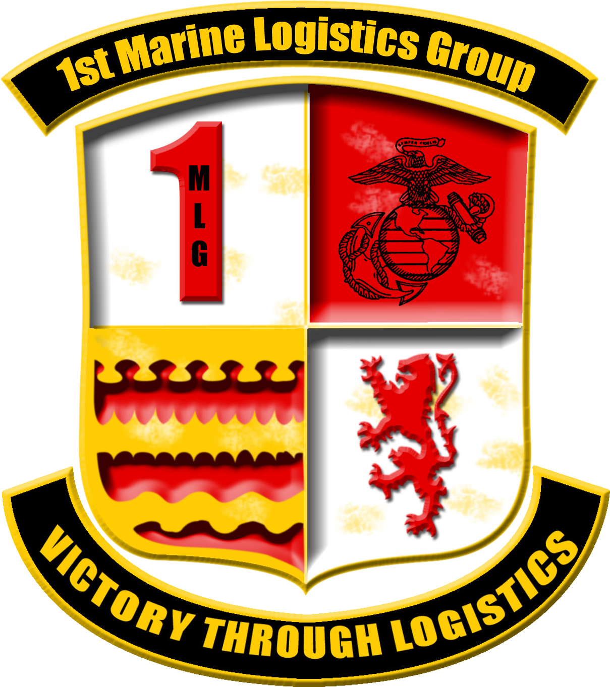 Insignia of the 1st Marine Logistics Group, USMC. Retrieved from official website at on May 21, 2006.